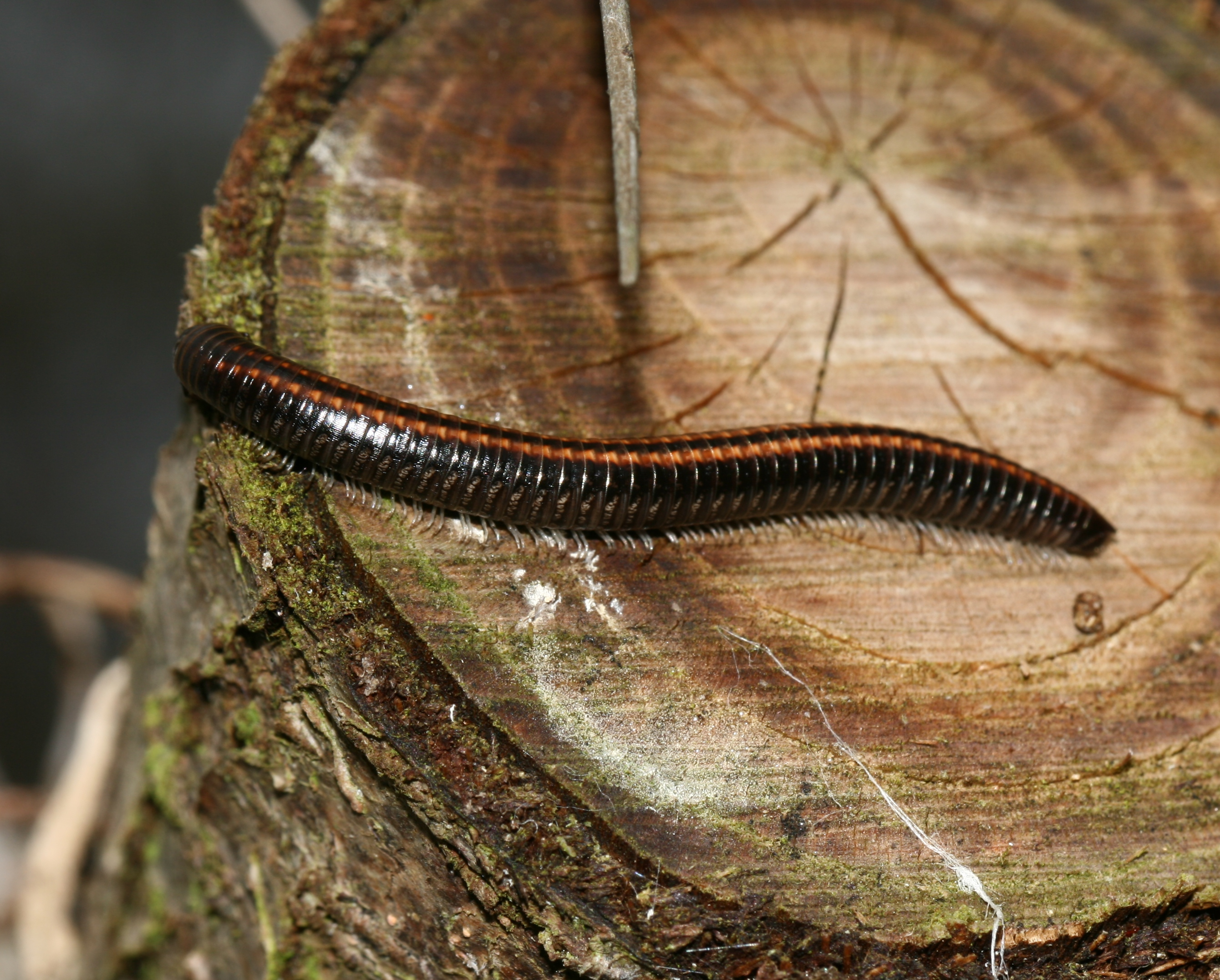 Ommatoiulus sabulosus in Luffness House, Scotland